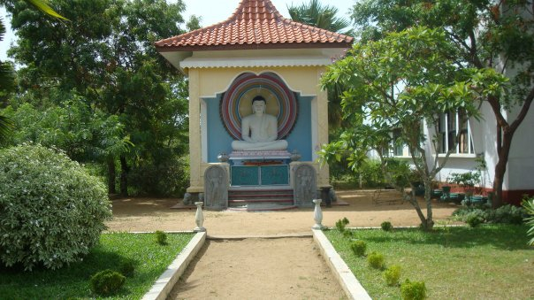 templw